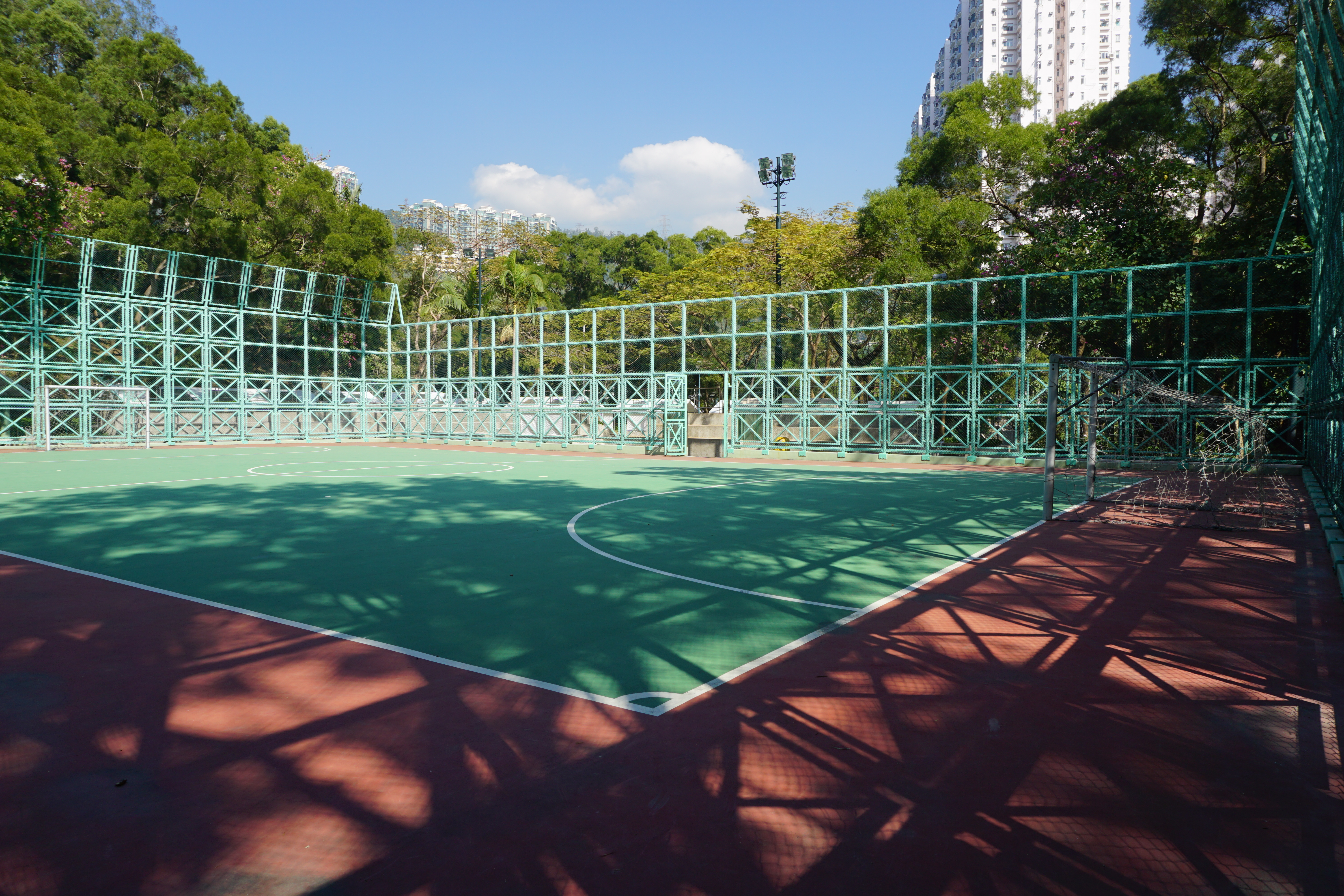 Tsuen King Circuit Playground in Tsuen Wan, Hong Kong.